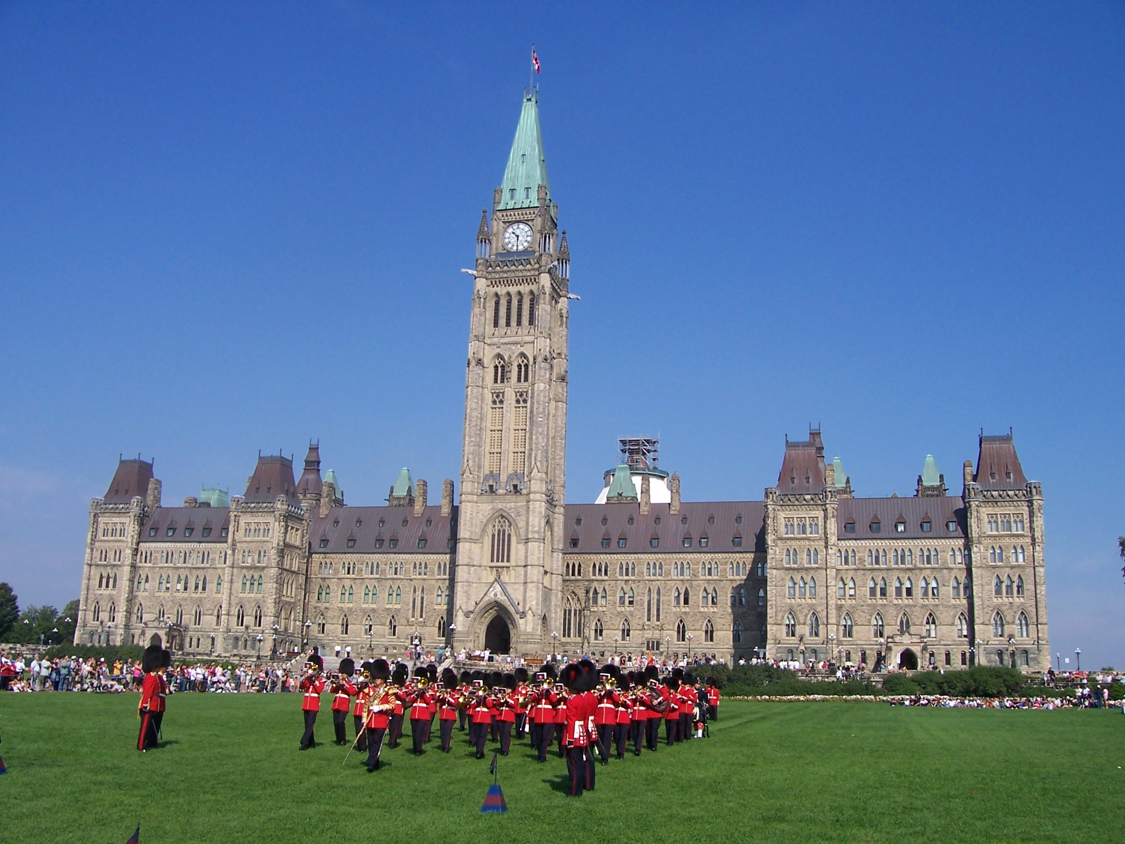 Changing of the Guard Ceremony in from of the Parliament of Canada in Ottawa, Ontario